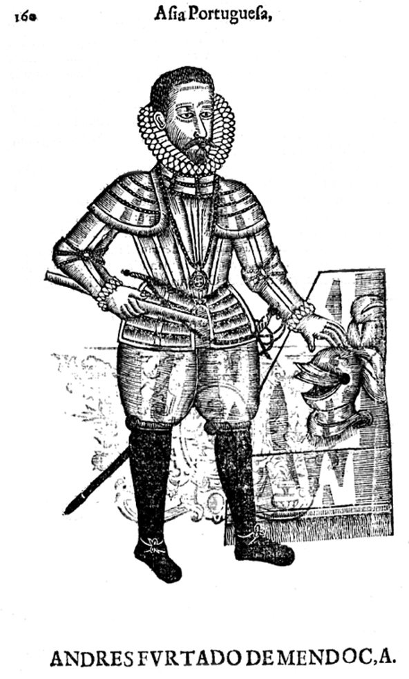 Portrait of André Furtado de Mendonça